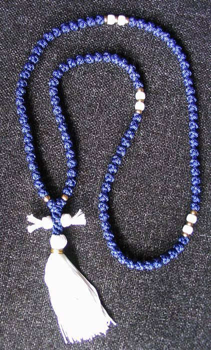 matthew